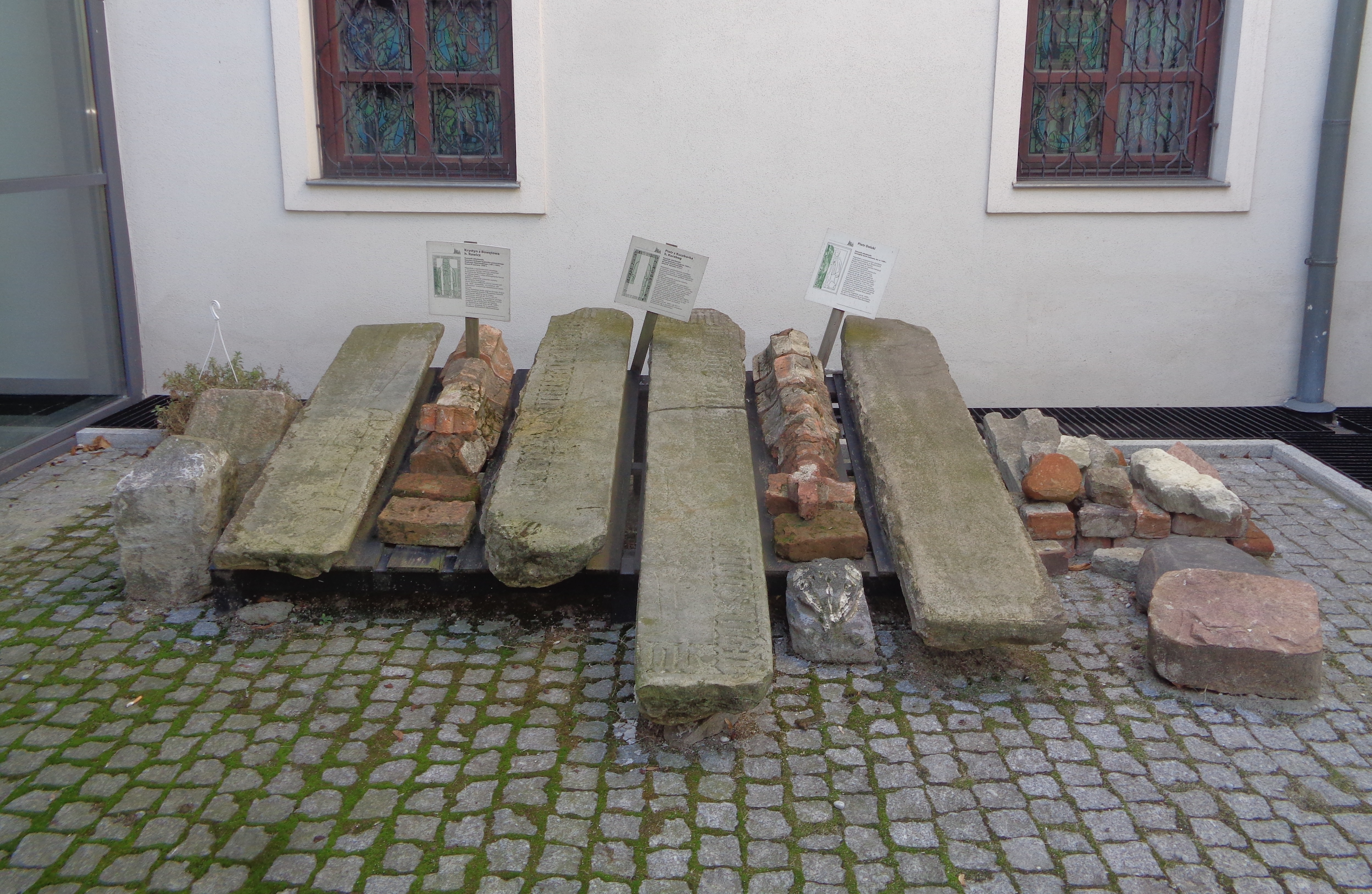 Lapidary by Diocese Museum in Włocławek. Here are relicts of gothic tombs of canons: Krystyn from Romatowo (died in 1508, on the plaque with information it is written as: from Bowętowo), Piotr from Kuczborg (died in 1518) and Piotr Dolski (died after 1500 year). These graves primarily had been in the flooring of Włocławek's Cathedral. During their regothisation in 1898 year they had been excavated and placed in lapidary in the wall surrounding Włocławek's Seminary, as its highest part. In 2010 they had been excavated and placed on the are of Museum.